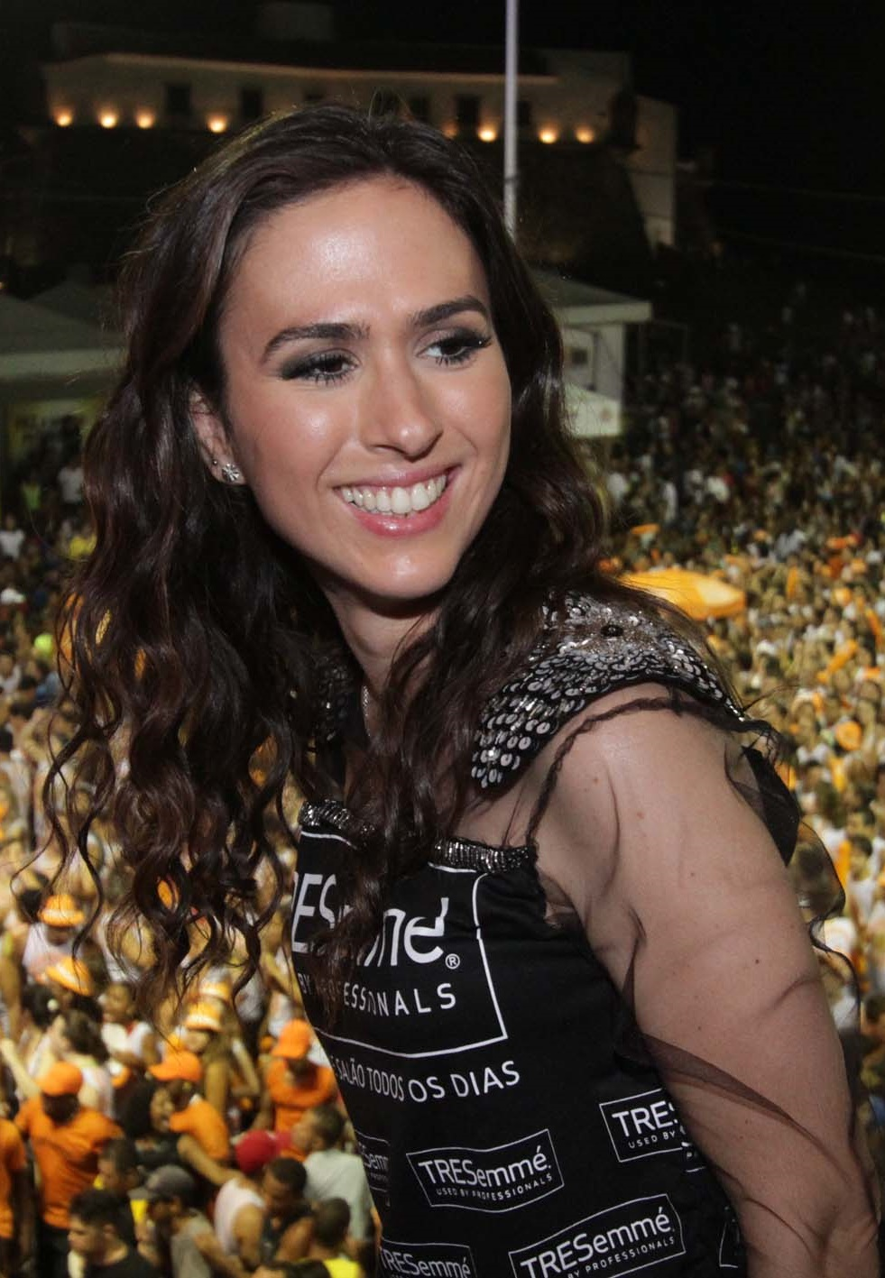 The Brazilian actress Tatá Werneck, during the Carnival (Salvador, Bahia, 2014)